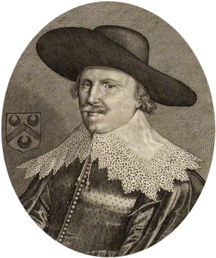 George Wither - portrait circa 1630s by John Payne Reproduced at Hymn Time], copied and cropped to approx two thirds, removing elaborate border